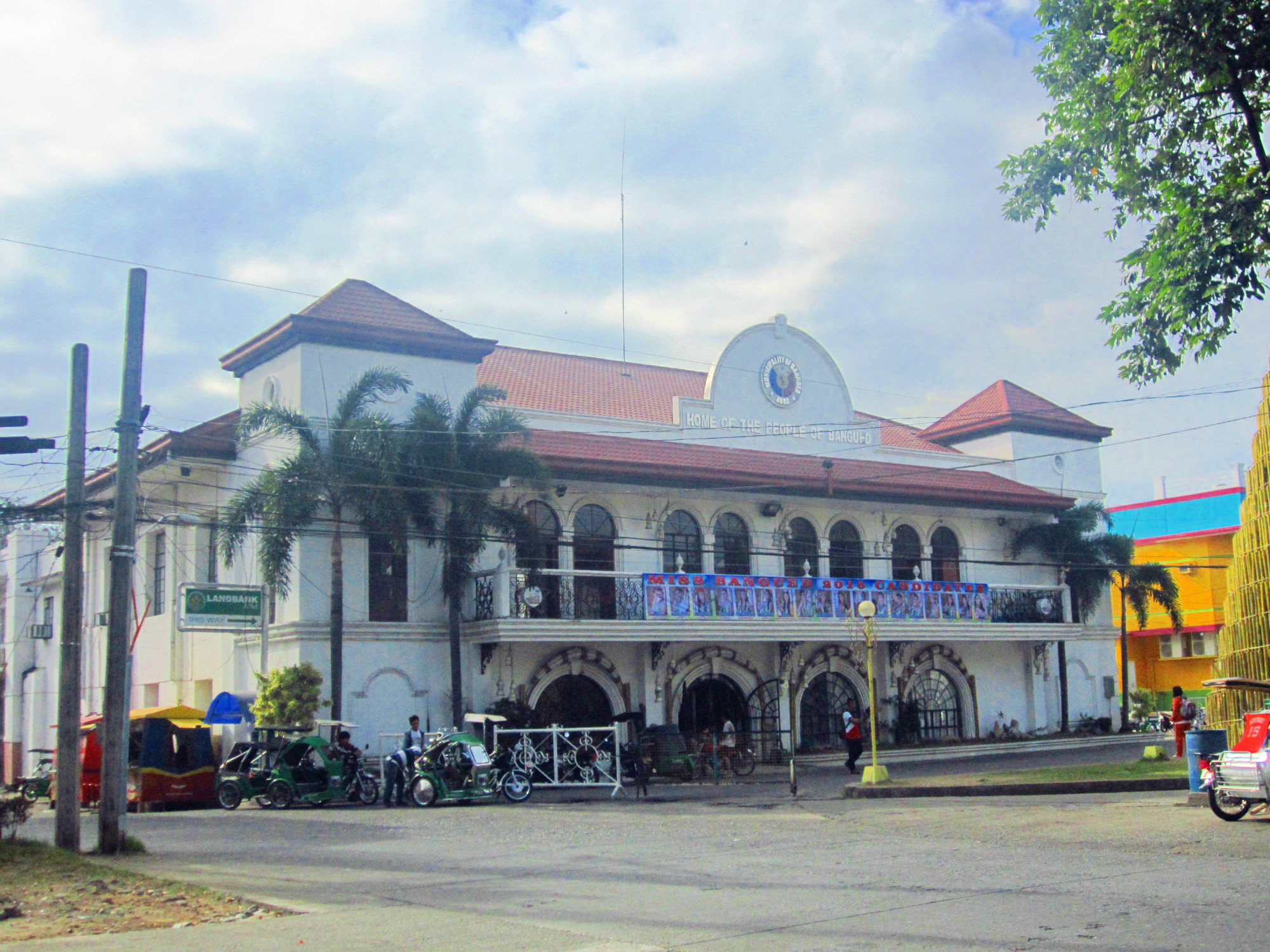 Municipal Hall in Bangued, province of Abra.